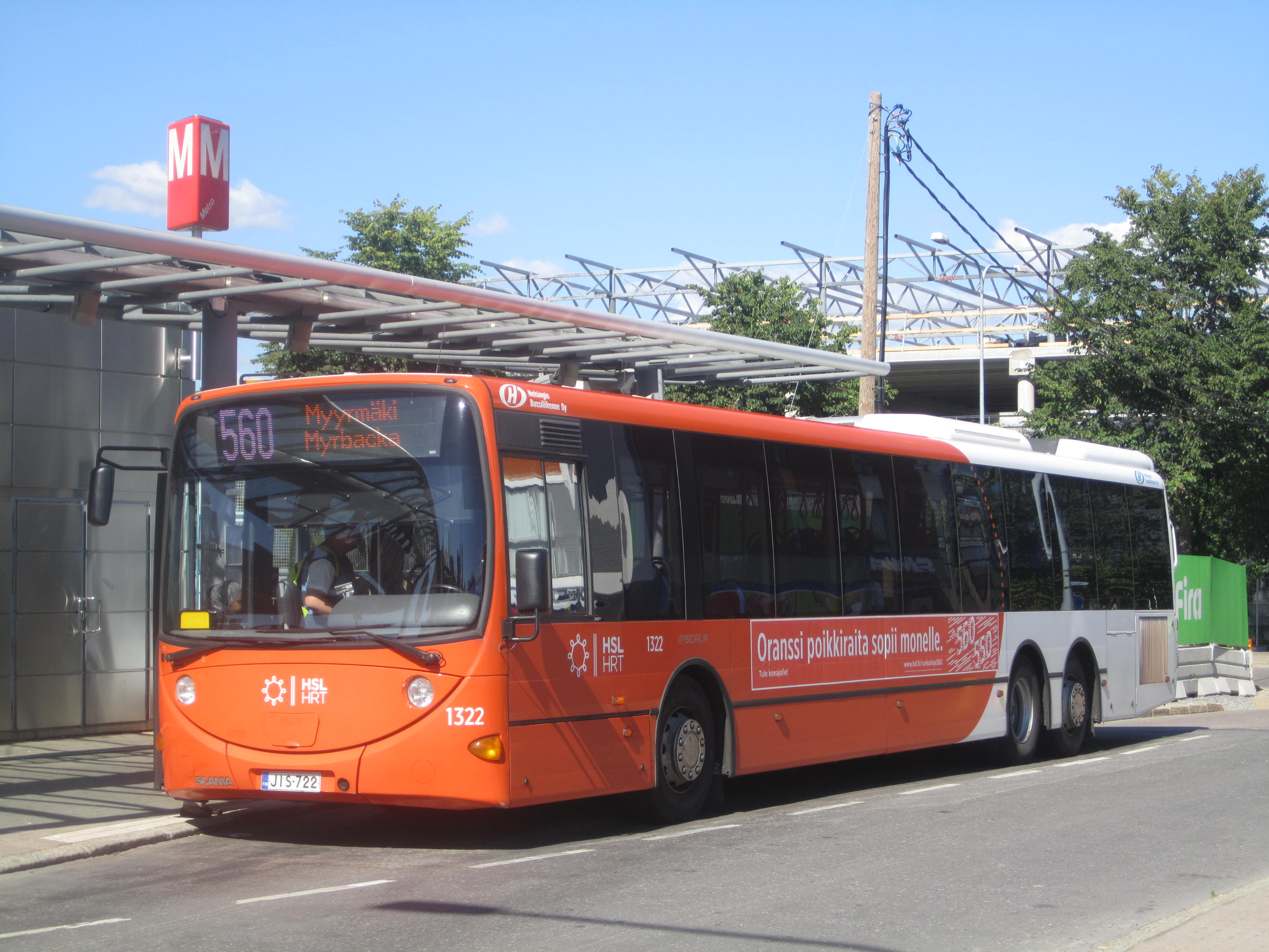 Runkolinjan 560 bussi päätepysäkillä Rastilan metroasemalla Helsingissä.